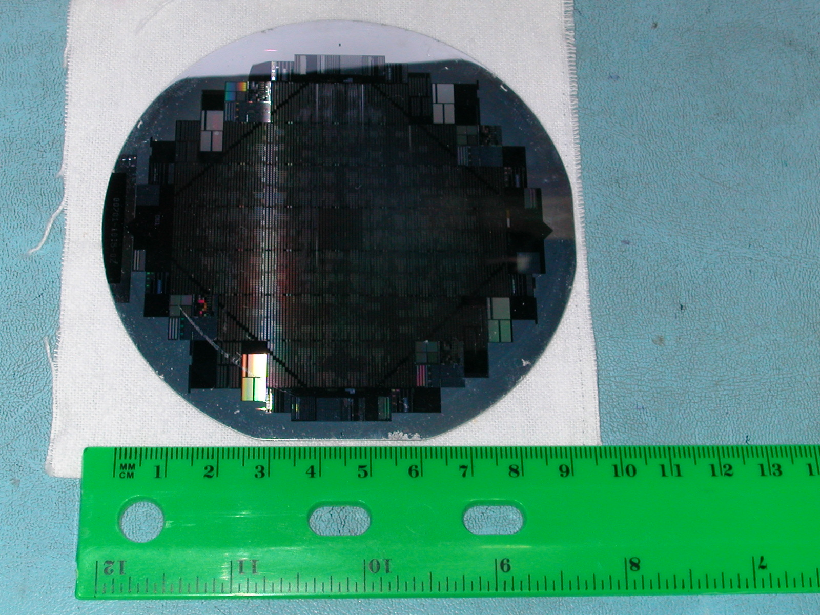 WSI (Wafer Scale Integration) integrated circuit. This is a failed prototype produced by Trilogy. The large "square" formed by the diagonal pattern is 2.25 inches square. The wafer is 4 inches in diameter. There are 4 sets of repeating "structures" that have a non symmetrical repeating pattern in each of the 4 quadrants of the chip at the edge, with the outermost squares being non functional areas.